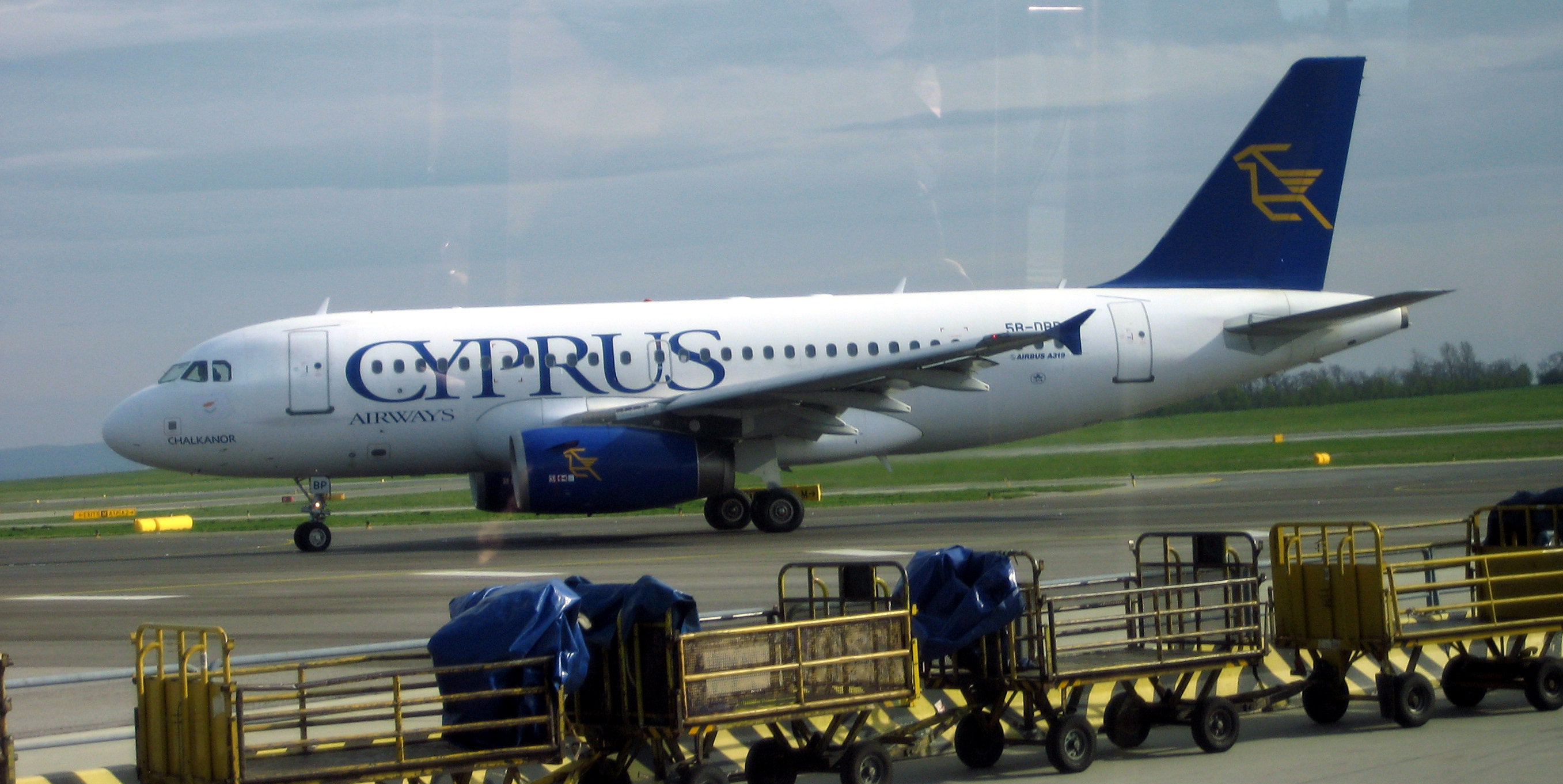 Airbus A319 of Cyprus Airways in Vienna